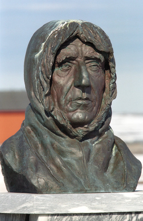 Svalbard, Ny-Ålesund, the Roald Amundsen monument